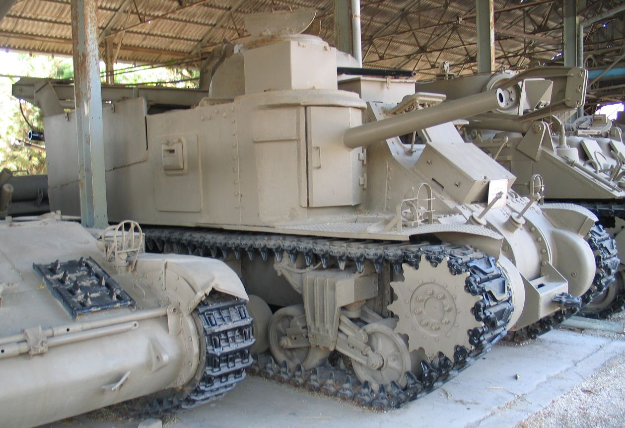 Description: M31 ARV (aka M31 TRV), an armored recovery vehicle (tank recovery vehicle) on M3 Lee tank chassis, in Batey ha-Osef Museum, Tel Aviv, Israel. Source: Photo by me, User:Bukvoed.